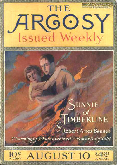 The Argosy, August 10, 1918